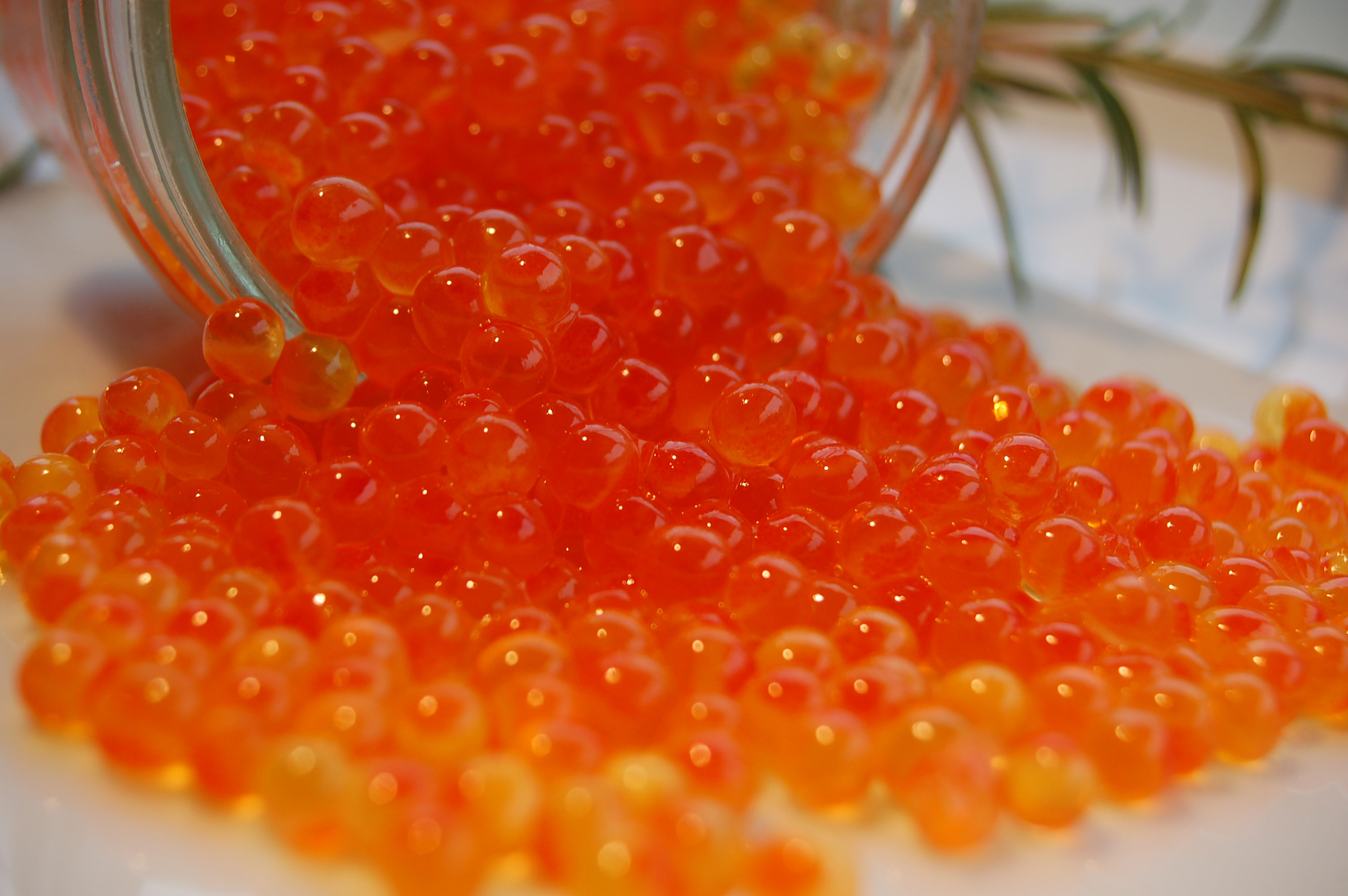 Caviar